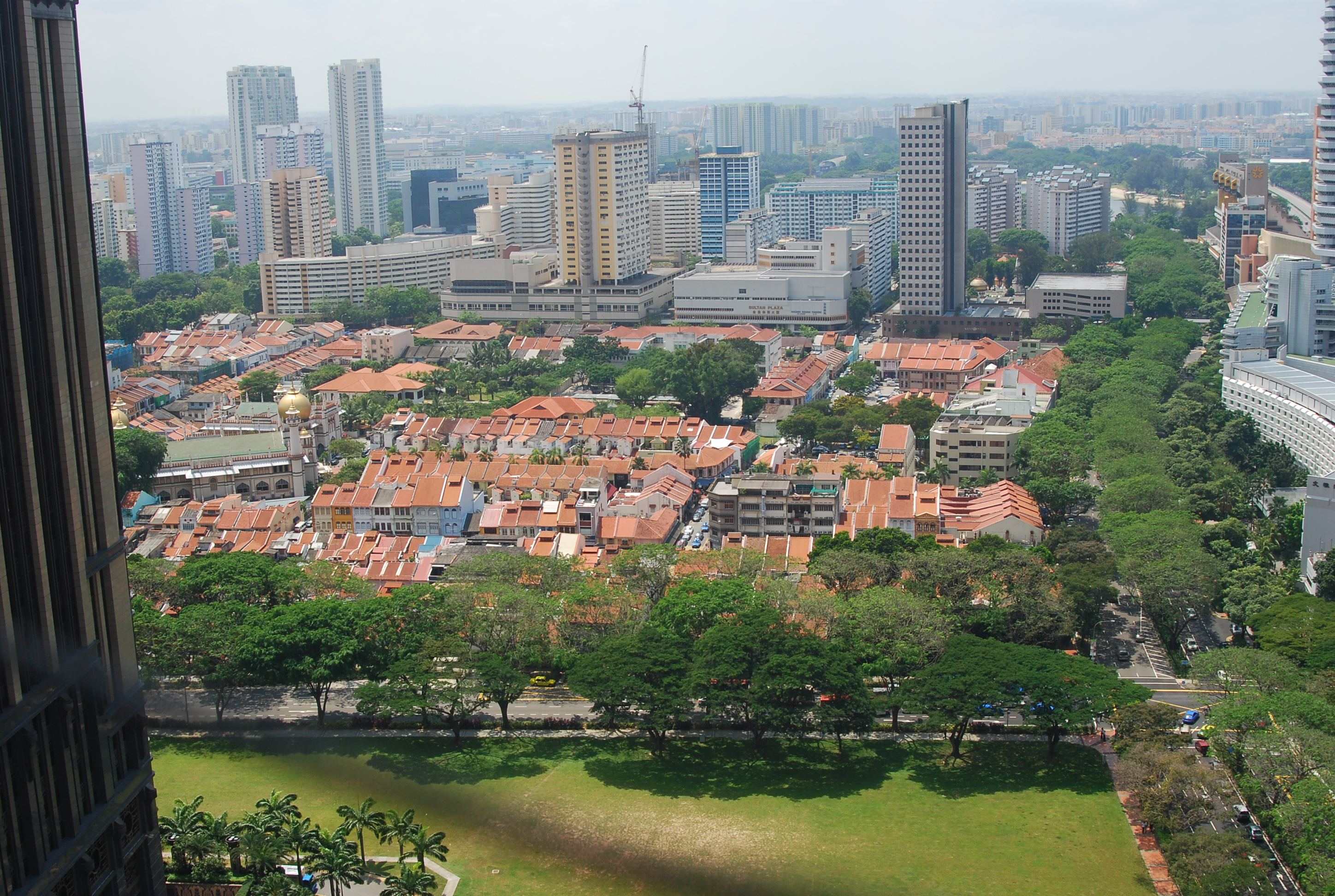 View of the Kampong Glam heritage quarter with the Central Business District in the background, taken from the DHL Balloon, Singapore.